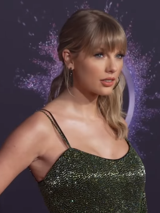 Taylor Swift at the 2019 American Music Awards red carpet